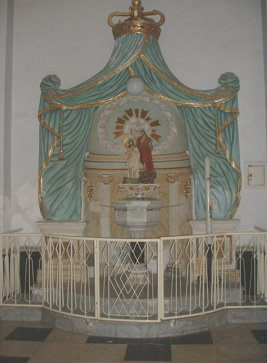 Solarino (SR), Chiesa Madre S. Paolo Apostolo, the baptistry (XIX sec.).